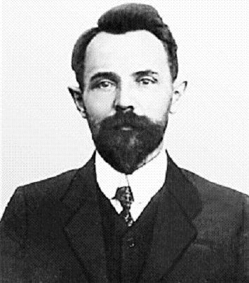 Leonid Krasin